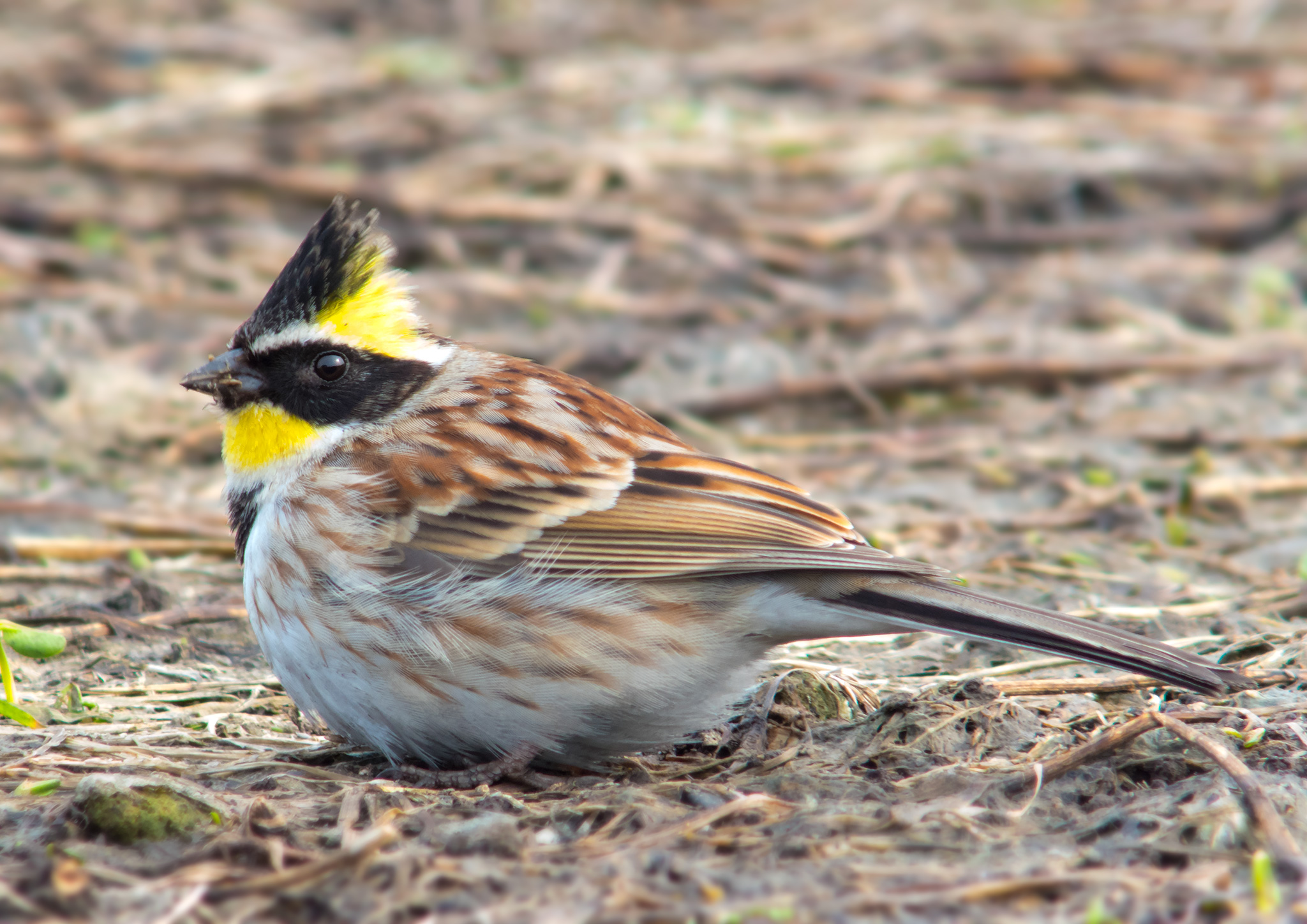 Yellow-throated Bunting Emberiza elegans, Hokkaido, Japan